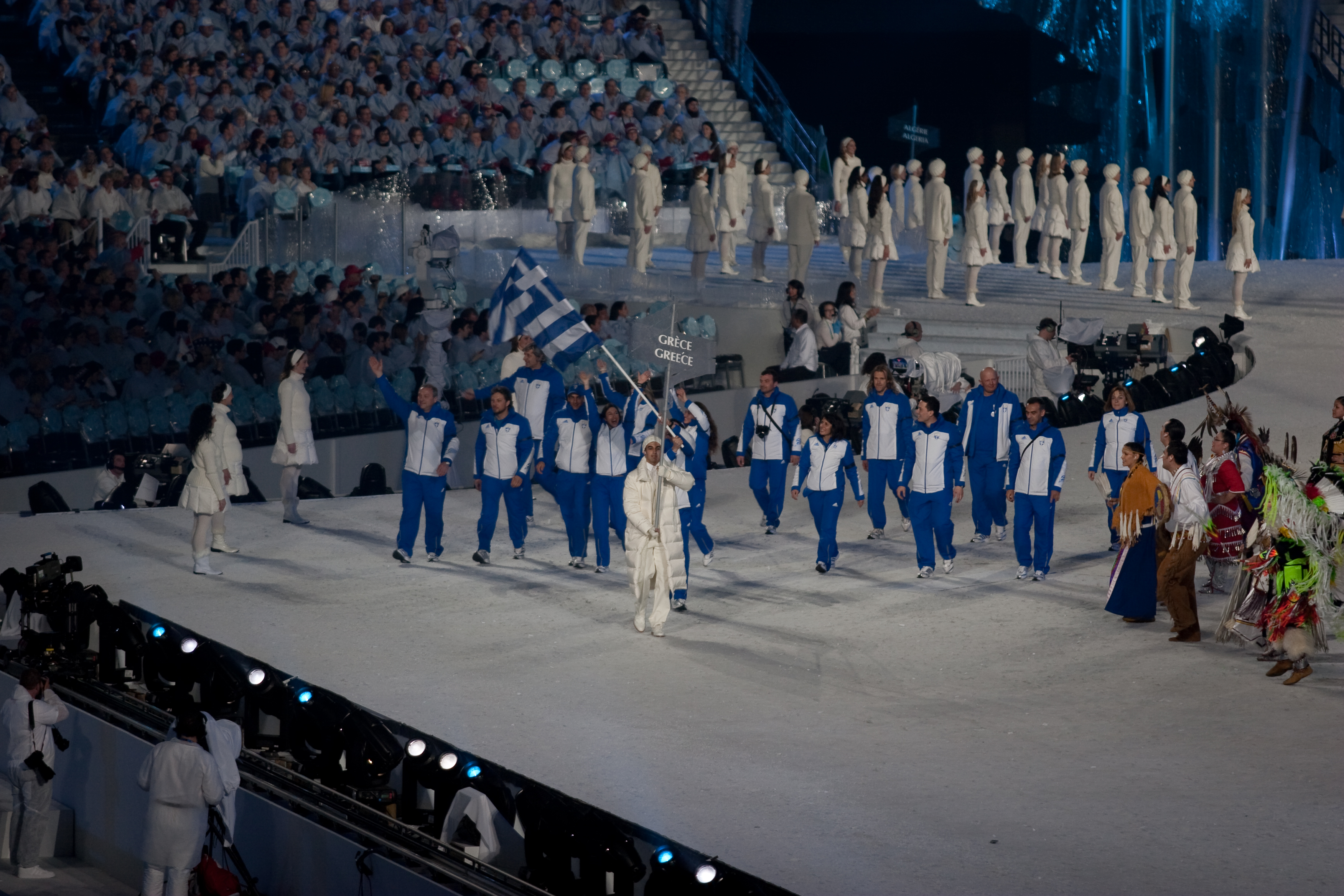 The athletes from Greece entering the stadium at the opening ceremonies of the 2010 Winter Olympics